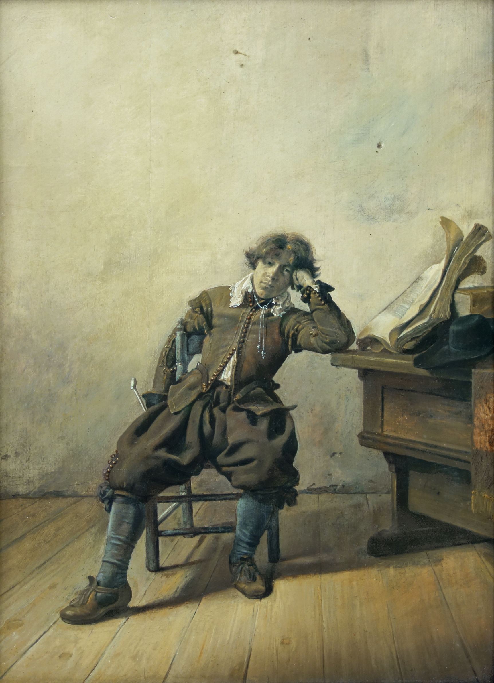 A Young Student at His Desk: Melancholy